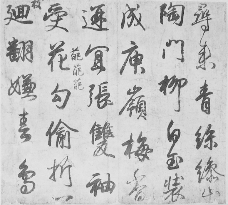 Detail of BYOBU_DODAI(Draft for inscriptions on Japanese folding screen),calligraphy by Ono no Michikaze(ACE894-996) in Imperial Agency,Japan, Ink on Paper, 22.5cm height , whole length 434.9cm